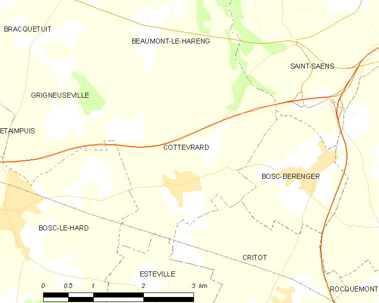 Map of French municipality Cottévrard